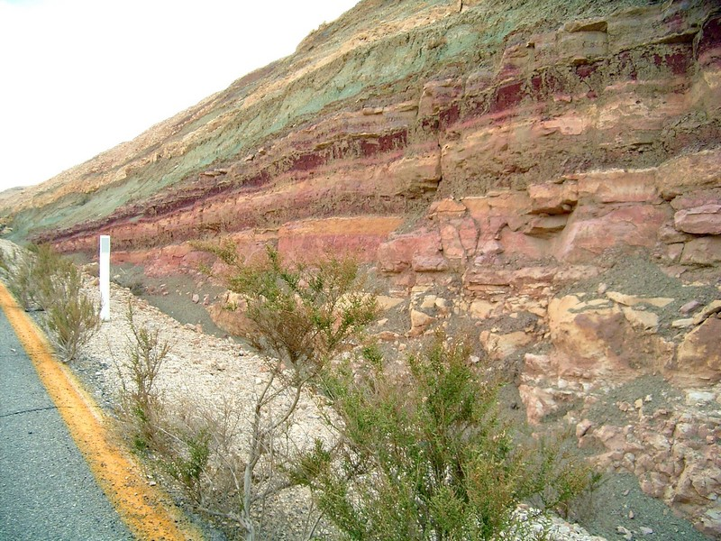 colored claystone